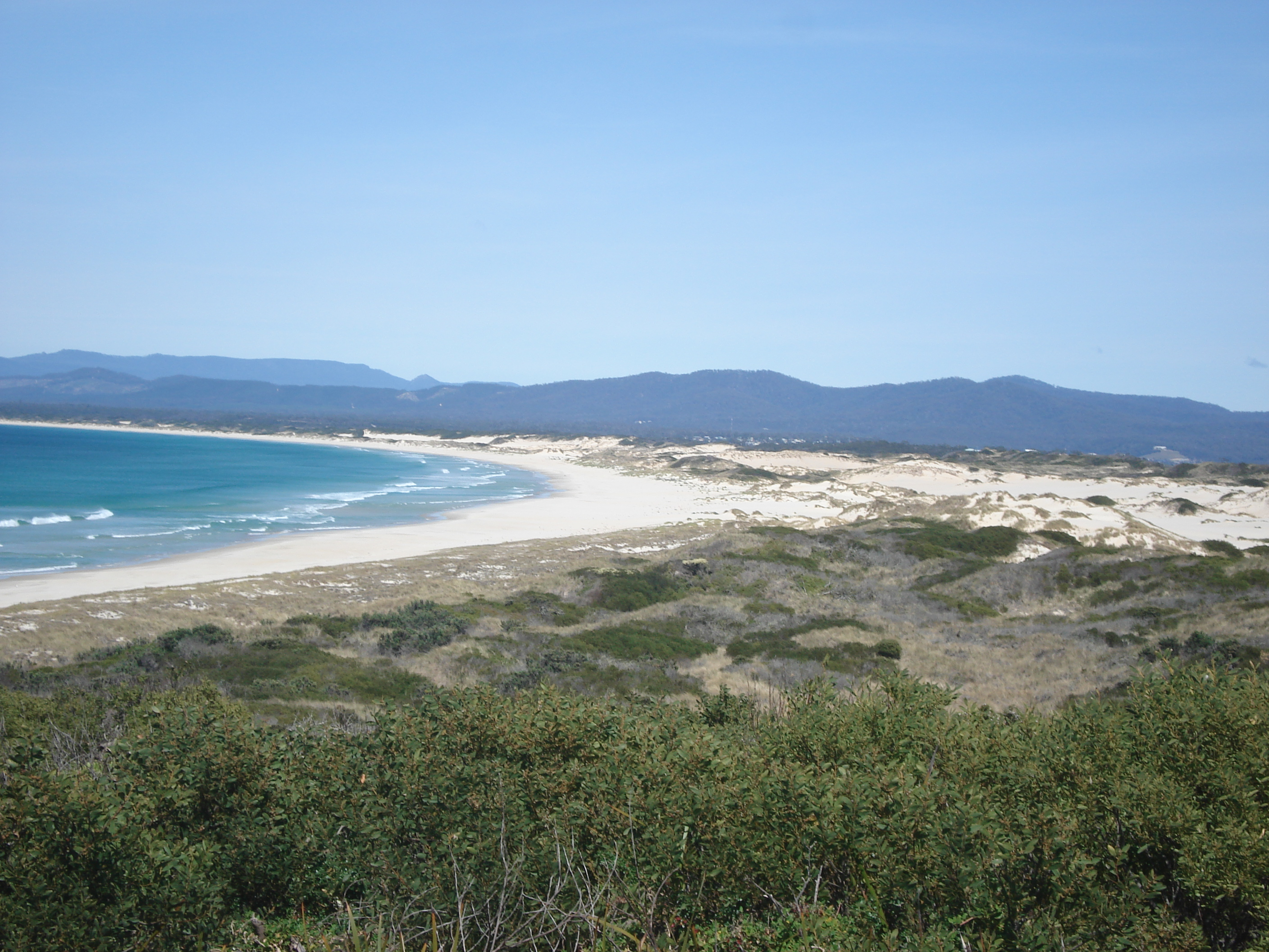 Beach at St Helens, Tasmania Photographer: Aaroncrick